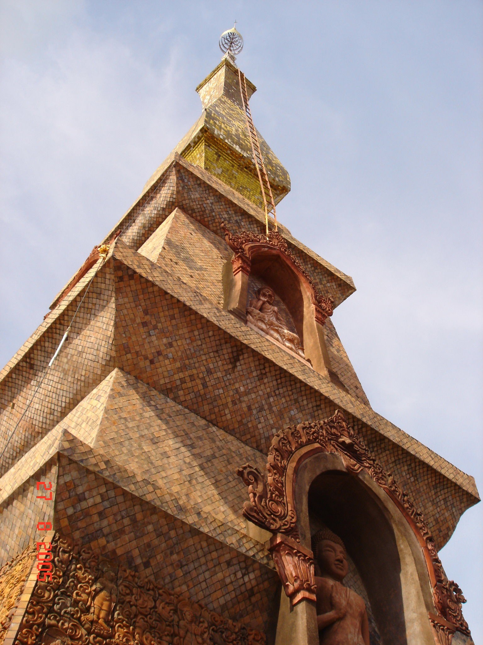 A. WaritChaphum